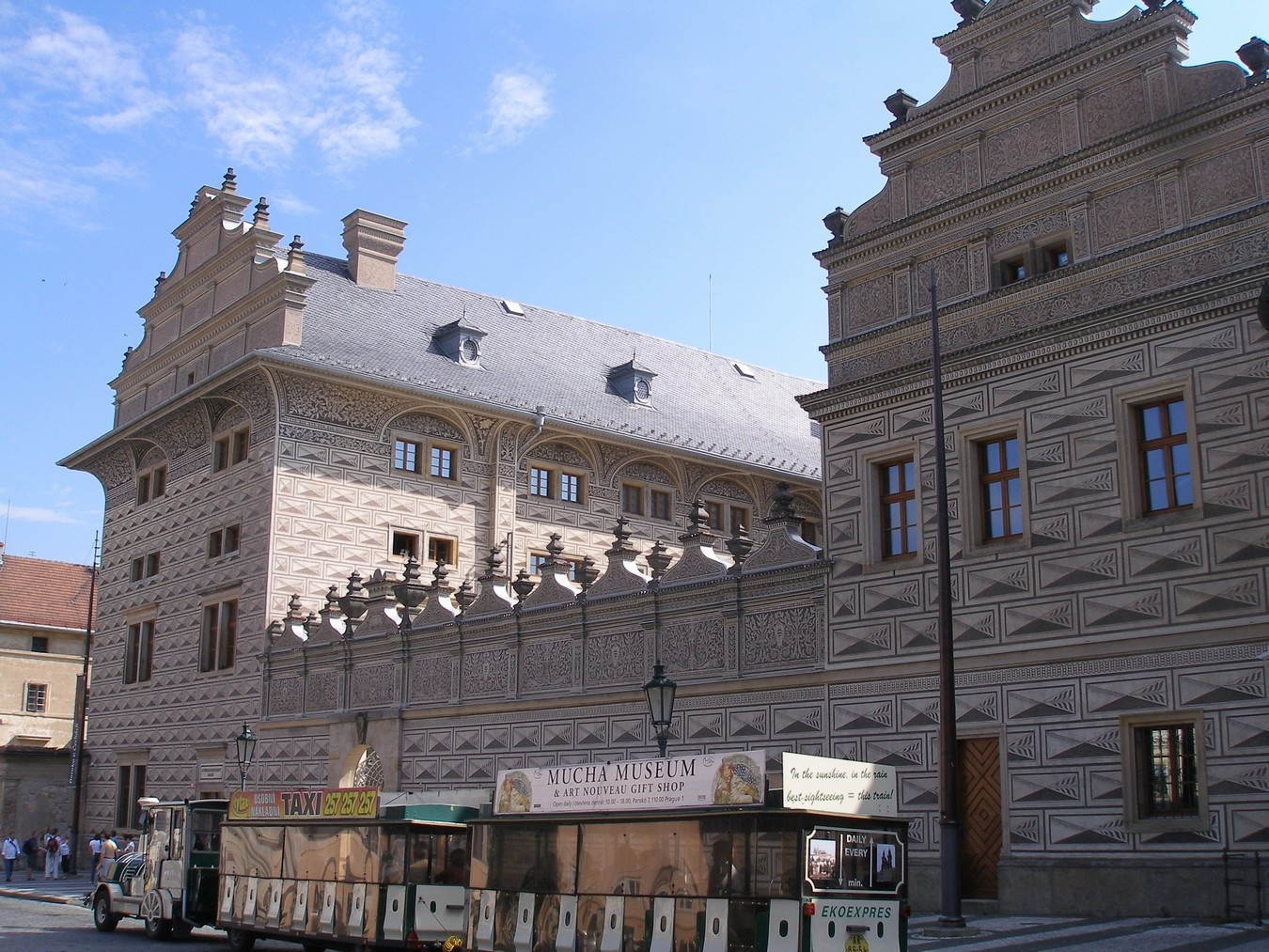 Schwarzenberg-Palace in Prague, Bohemia